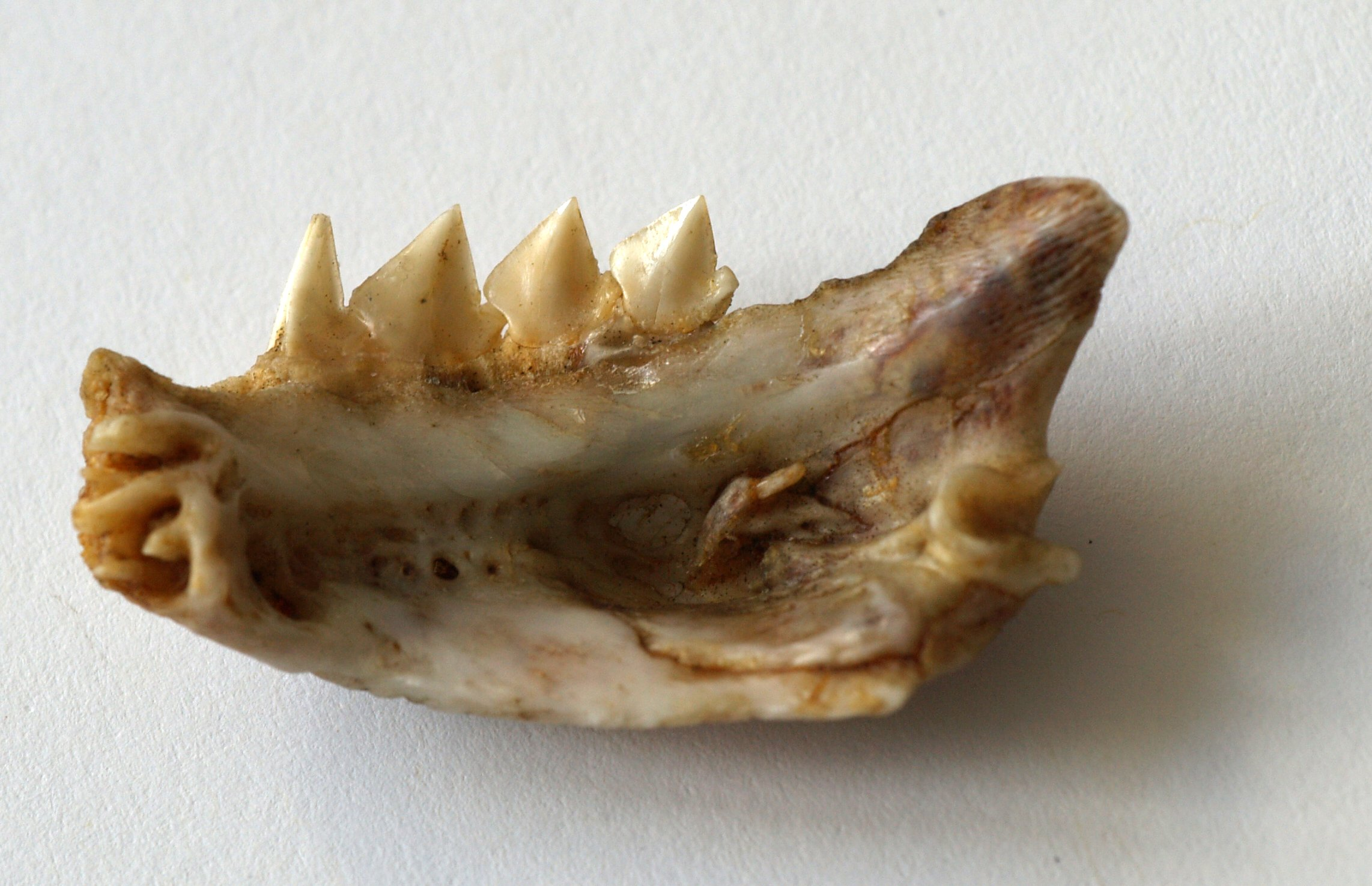 Jaw bone of Serrasalmus nattereri, from Cologne Zoo, Germany.